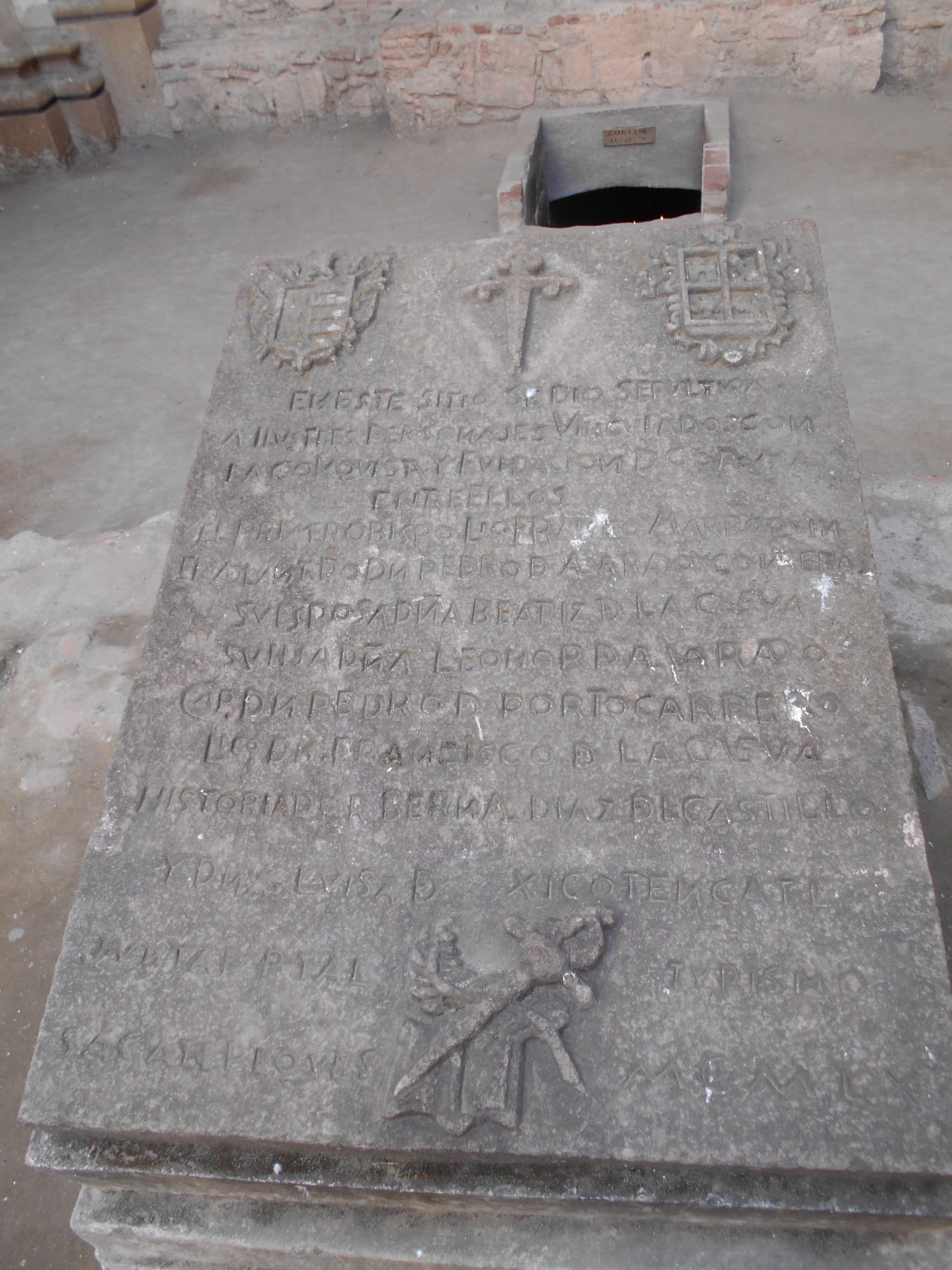 Ruins of the cathedral of Antigua Guatemala. Memorial stone place in 1960 to mark the tombs of Francisco Marroquín, first bishop of Guatemala, conquistador Pedro de Alvarado, his wife Beatriz de la Cueva, and daughter Leonor de Alvarado, conquistadors Pedro de Portocarrero, Francisco de la Cueva and Bernal Díaz del Castillo, and Luisa Xicoténcatl, Pedro de Alvarado's concubine.